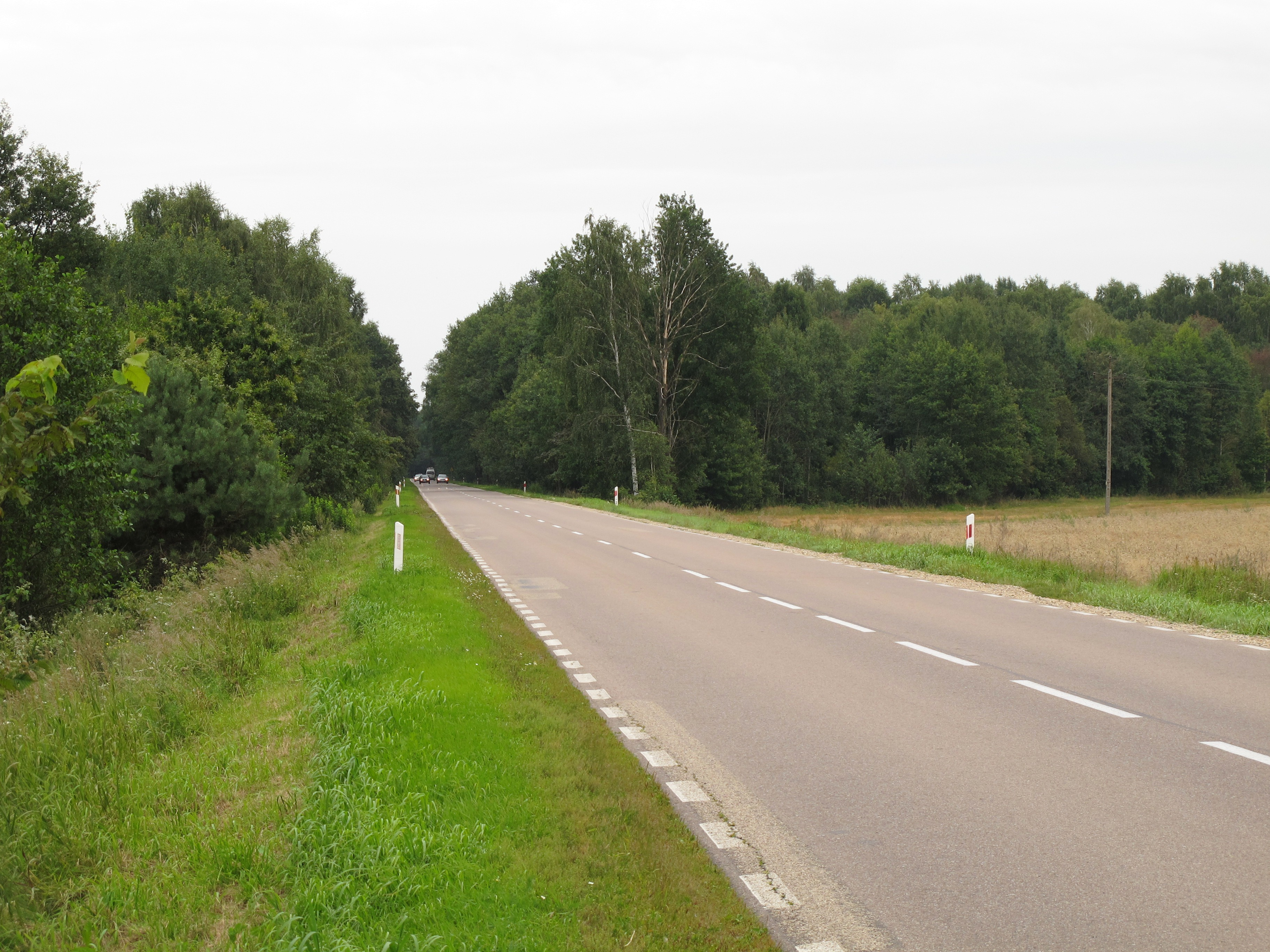 NR64 near the Góra Strękowa village, gmina Zawady, podlaskie, Poland